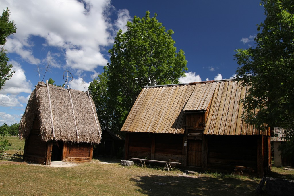 Norrlanda fornstuga